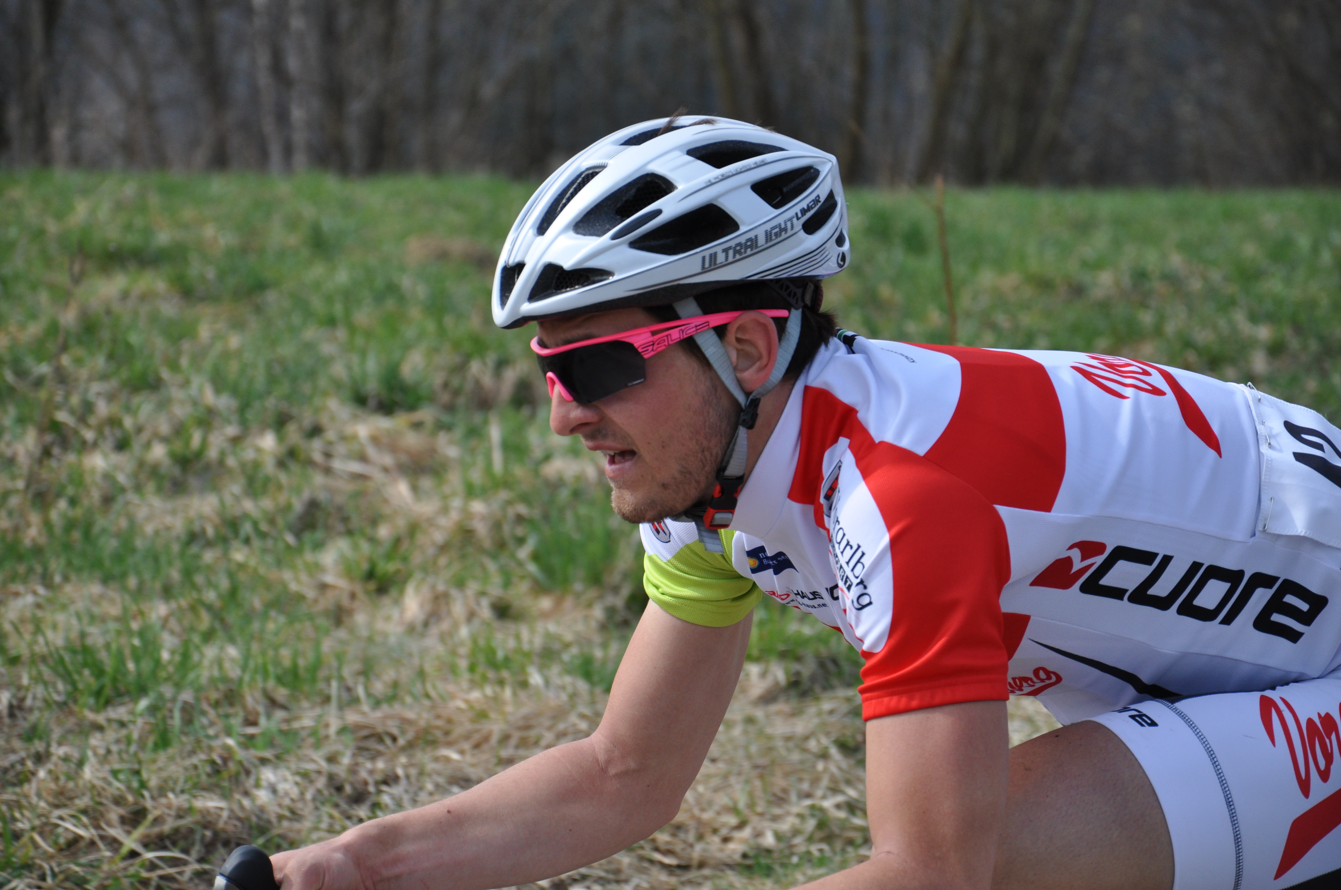 Dominik Brändle (Austria) riding for Team Vorarlberg at the Eröffnungsrennen Leonding 2011